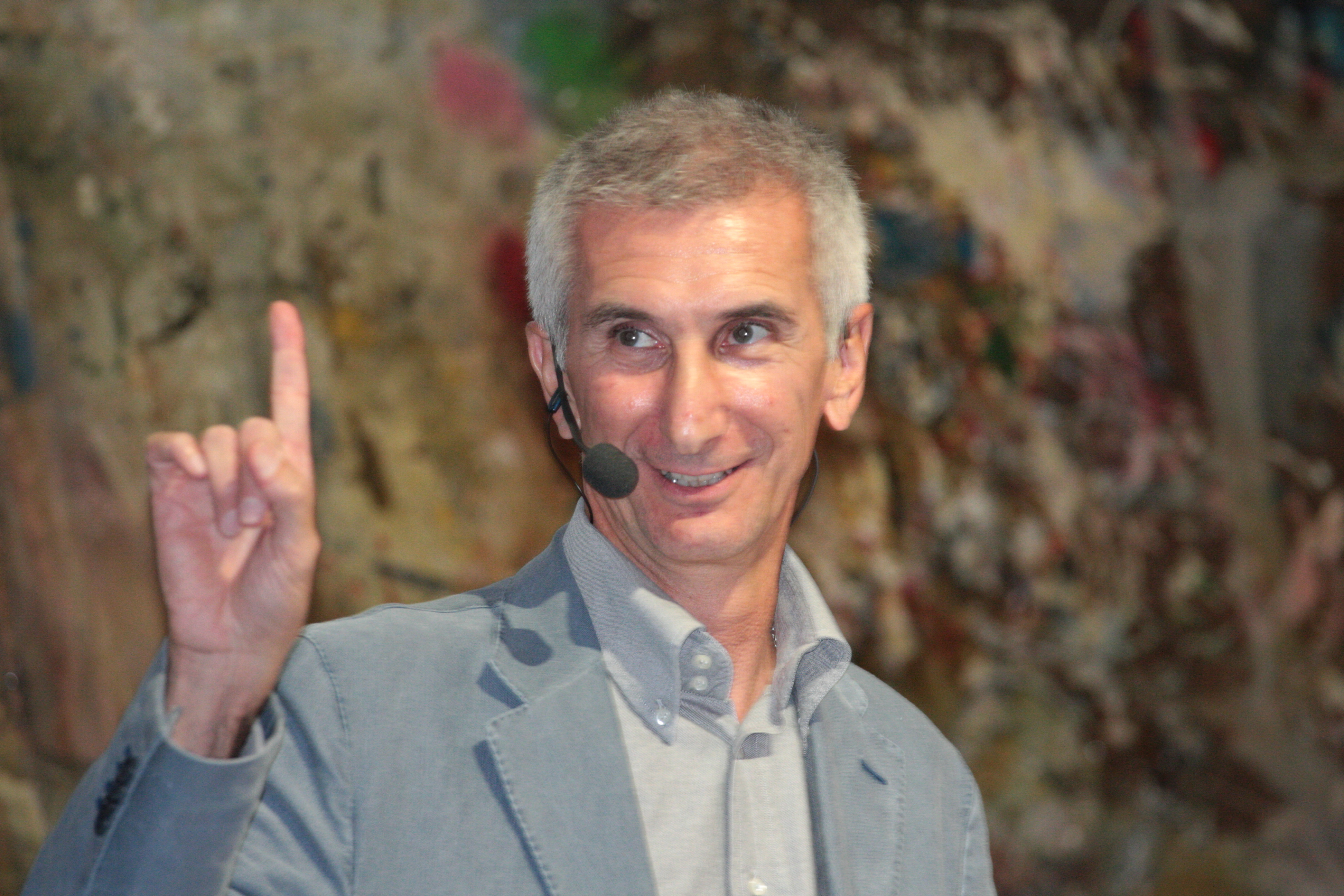 Italian television author and archaelogist Umberto Broccoli